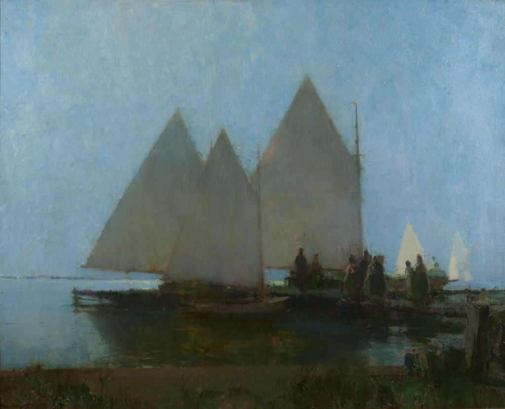 Summer Night by Walter Granville-Smith, 36 x 44.25 inches (91.4 x 112.4 cm), oil on canvas, c. 1919